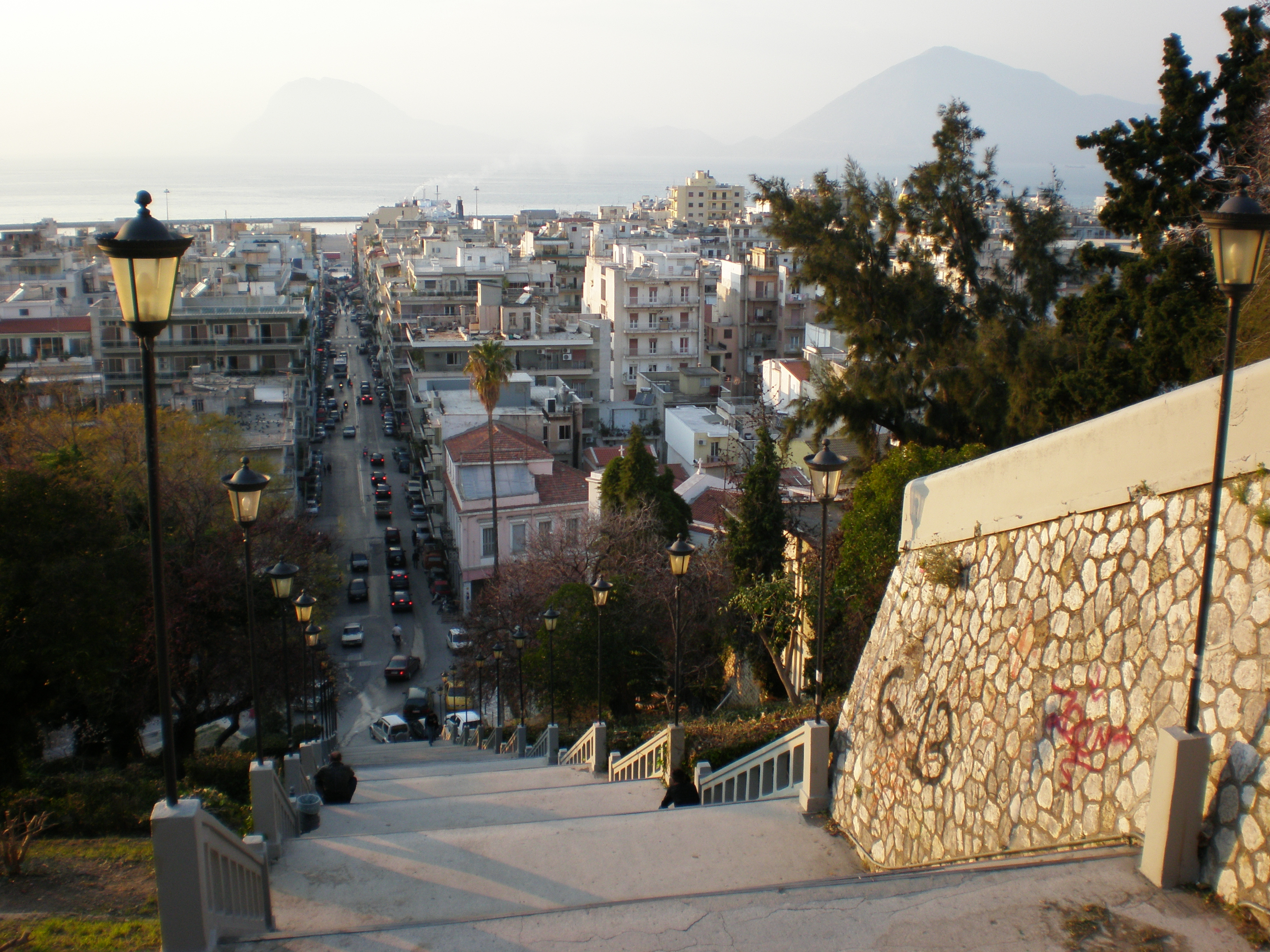 The Stairs of Agios Nikolaos street in Patras, Greece